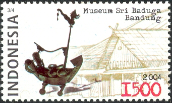 Stamps of Indonesia